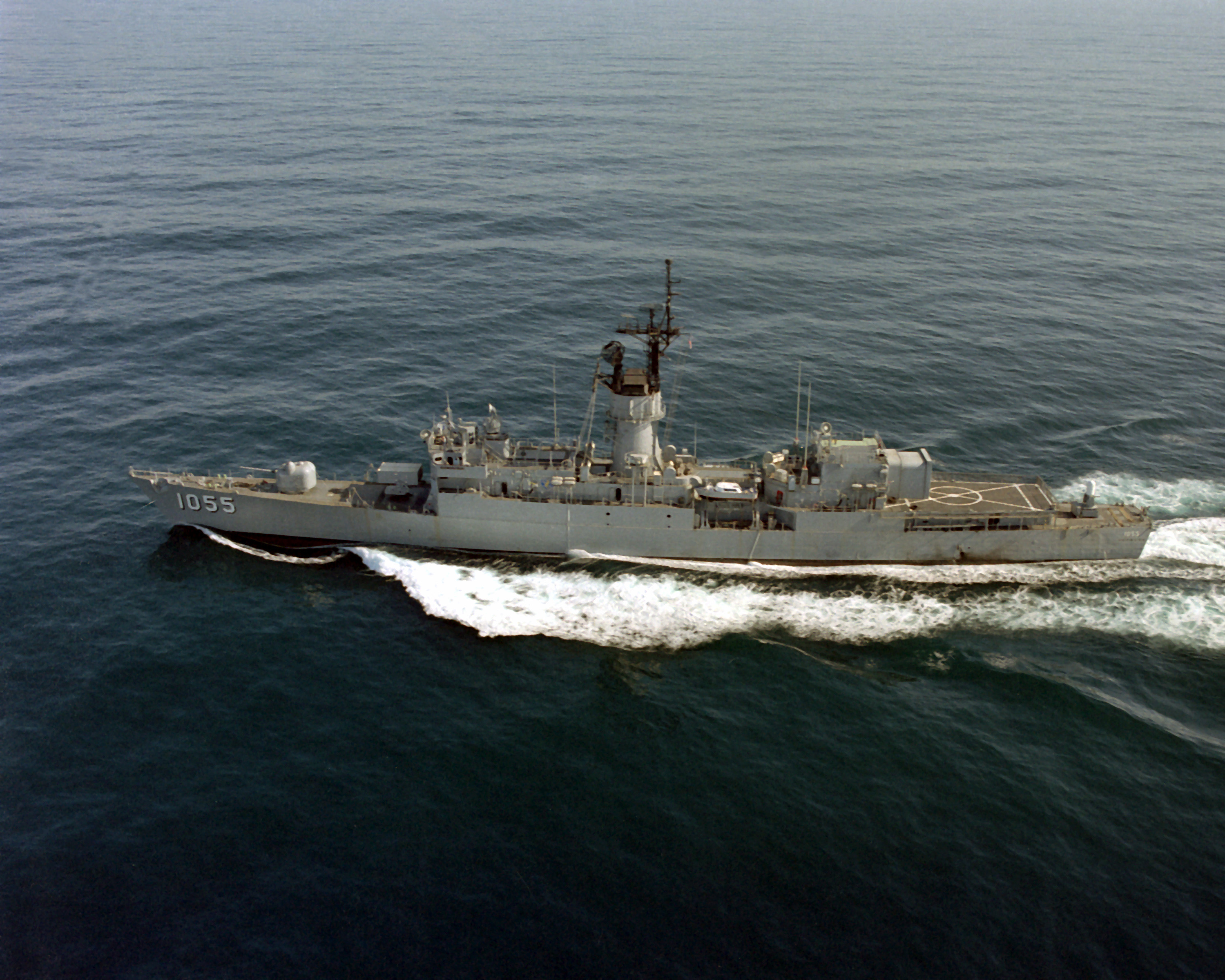 An aerial port beam view of the frigate USS HEPBURN (FF-1055) underway.